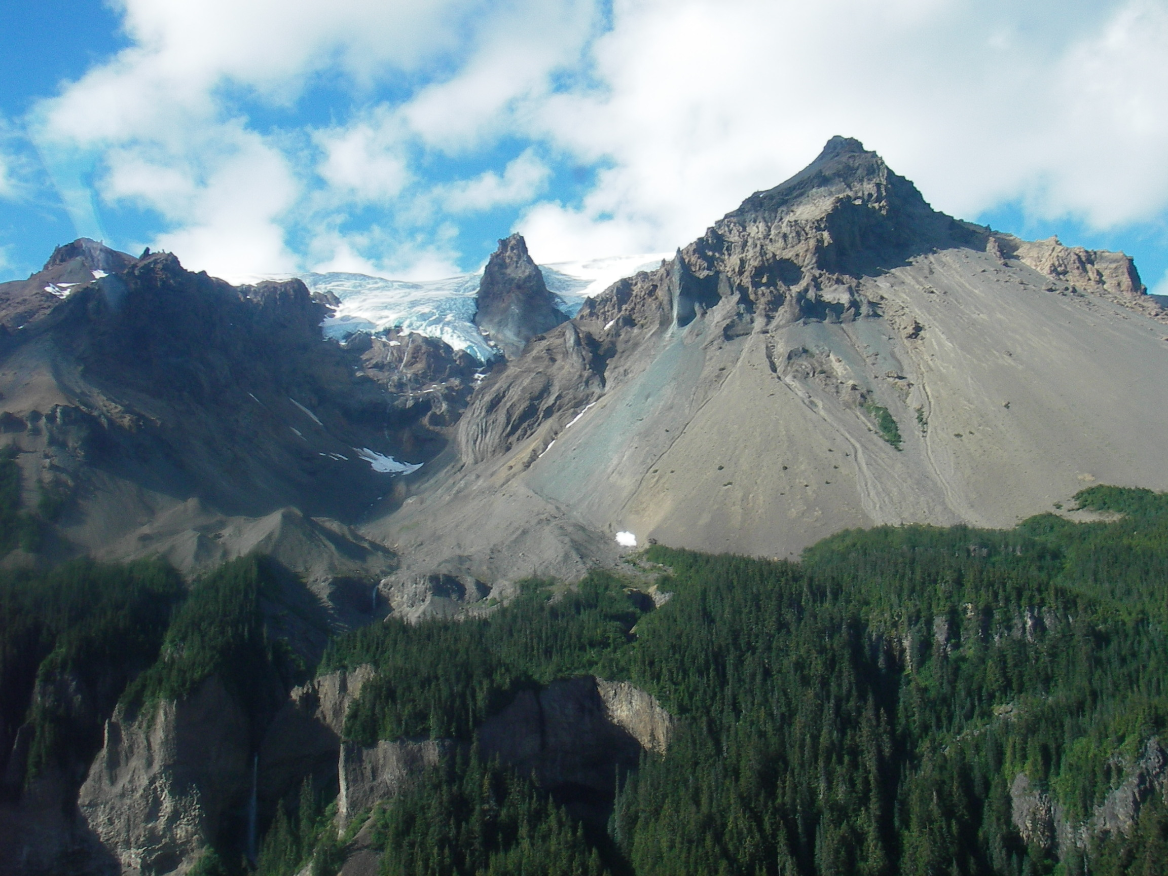 Looking up to the summit glacier cap of Hoodoo Mountain from the south. Taken from a helicopter.